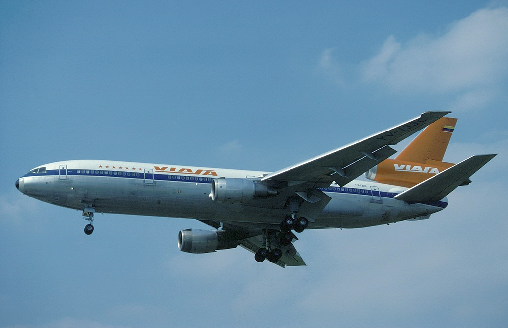 A VIASA McDonnell Douglas DC-10-30 at London Heathrow Airport (LHR / EGLL)